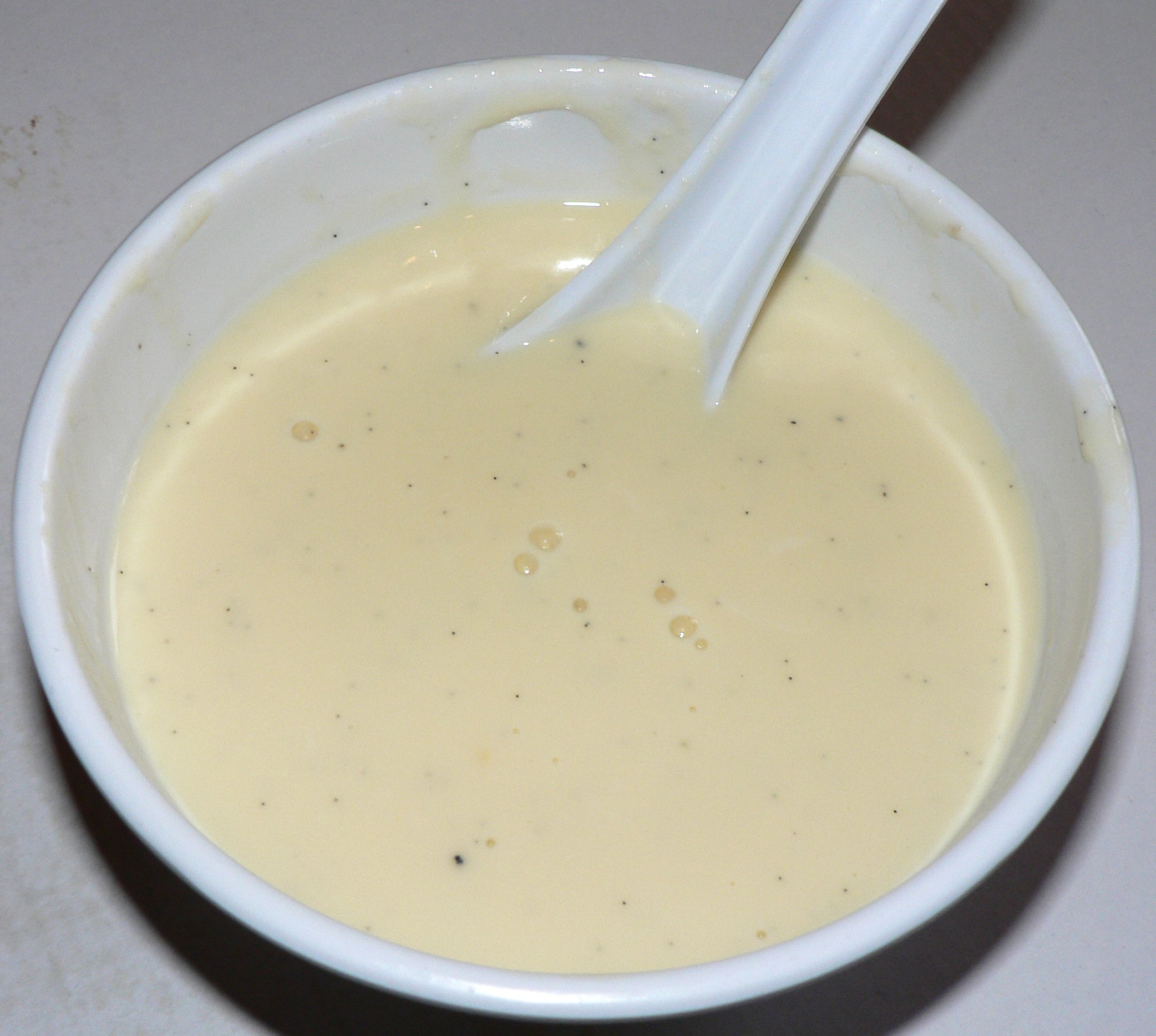 Crème anglaise made from milk, eggs, sugar and vanilla (in beans)